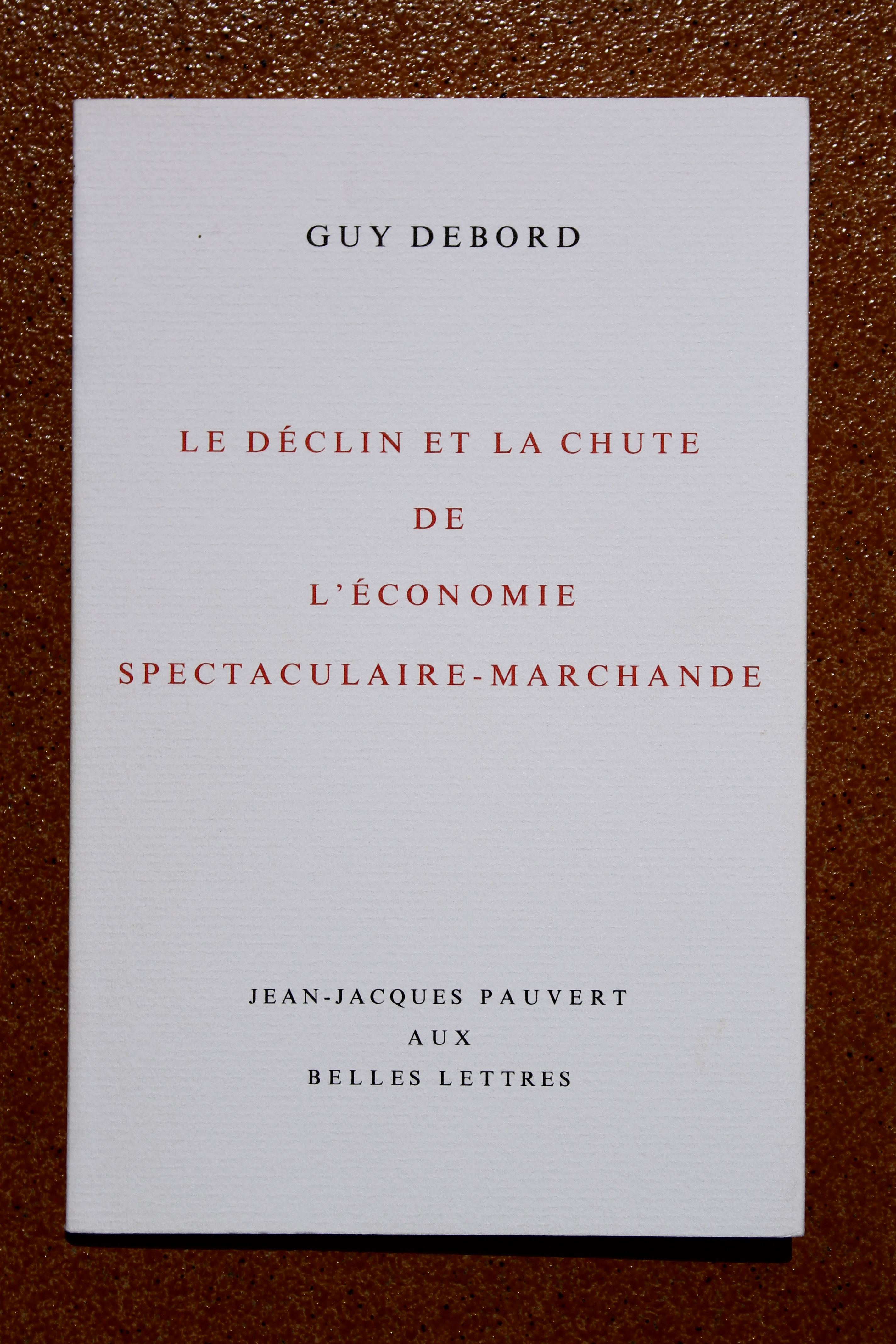 Le Declin et la chute cover